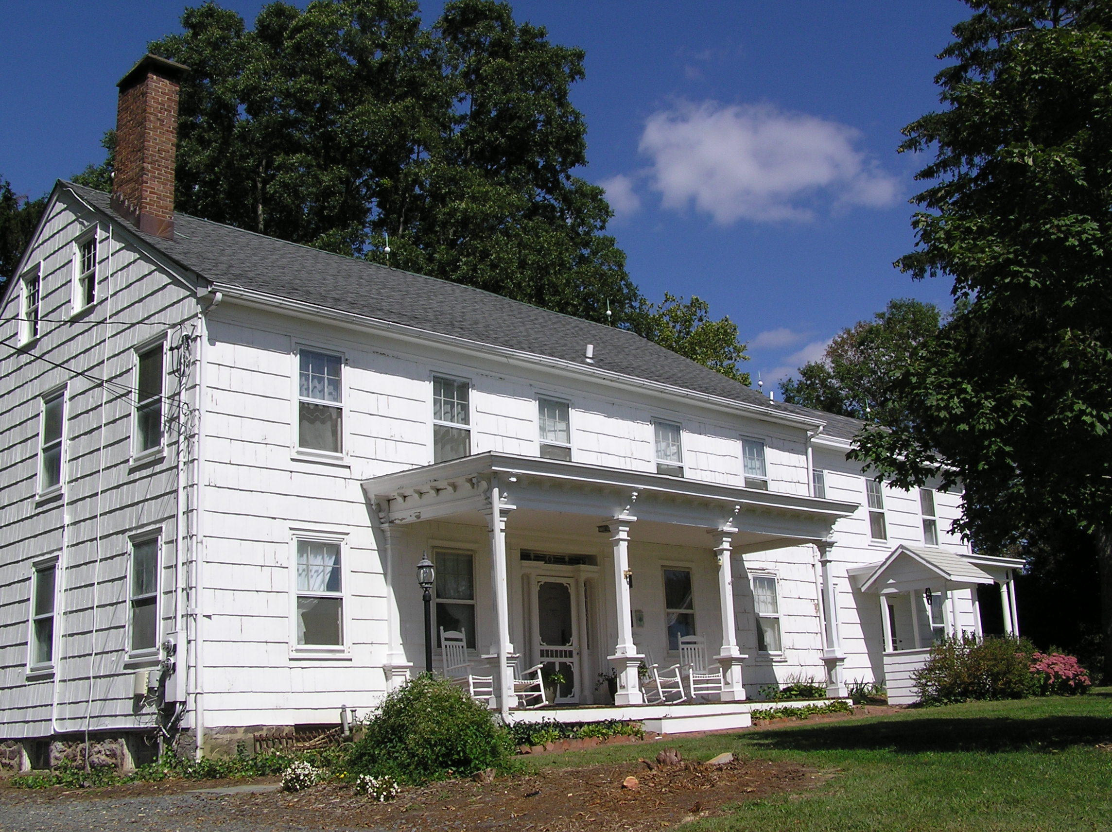 Walker-Combs-Hartshorne Farmstead at Wemrock Road and Oakley Drive in Freehold Township, N.J.